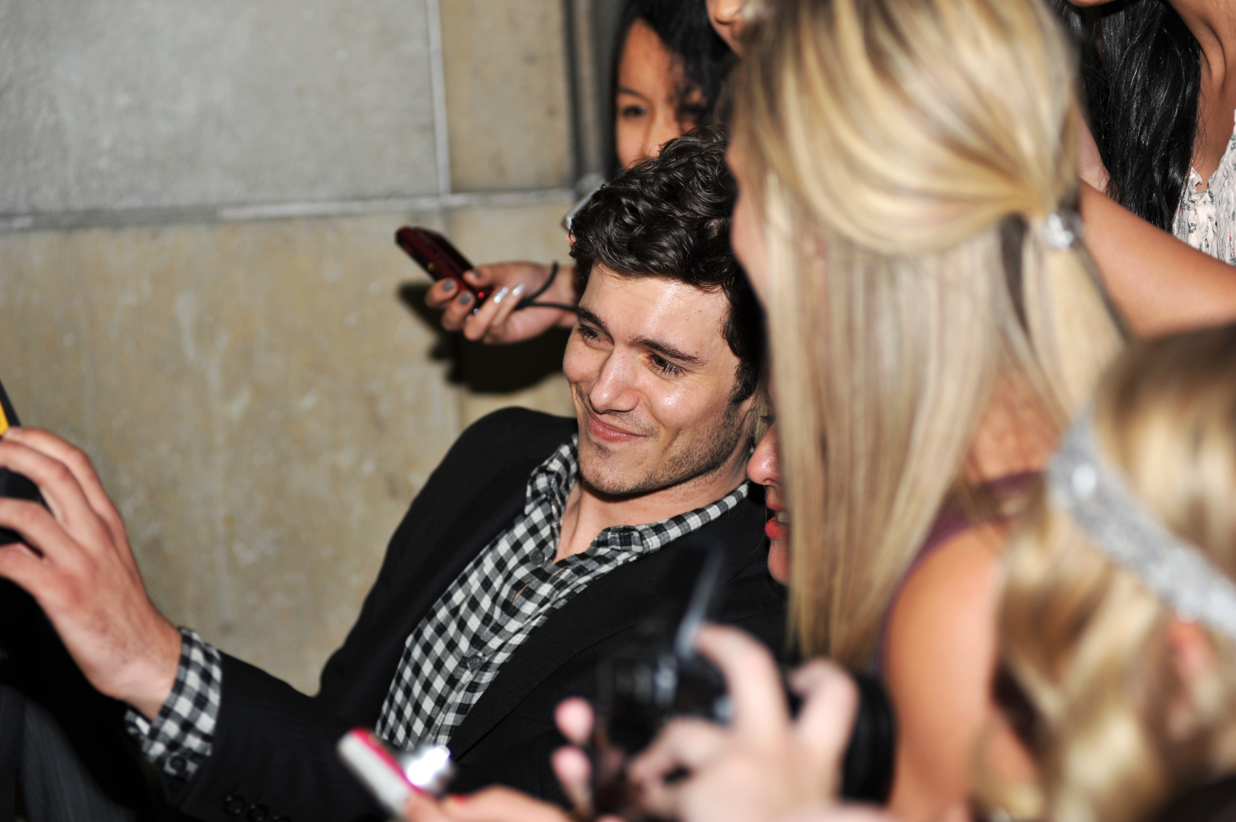 Adam Brody @ Jennifer's Body screening